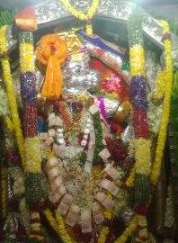 Hanumana yalagur